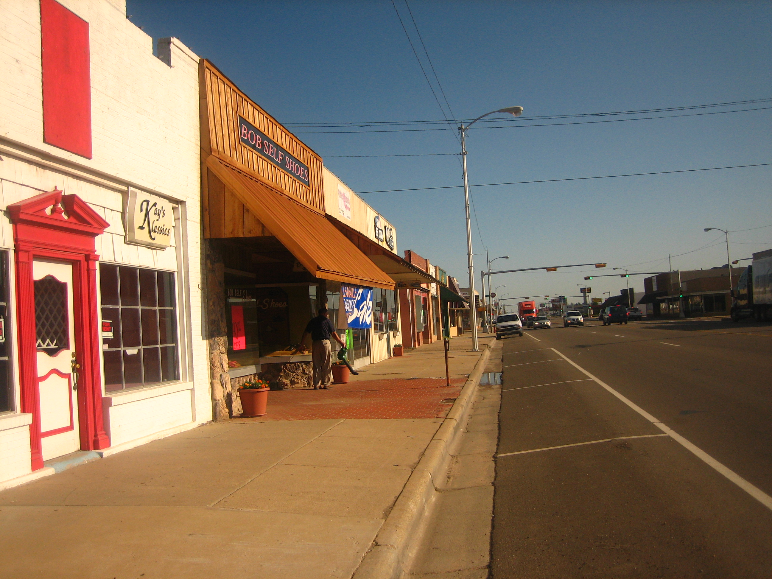 I took photo on July 15, 2008.Billy Hathorn (talk) 19:21, 15 October 2008 (UTC)